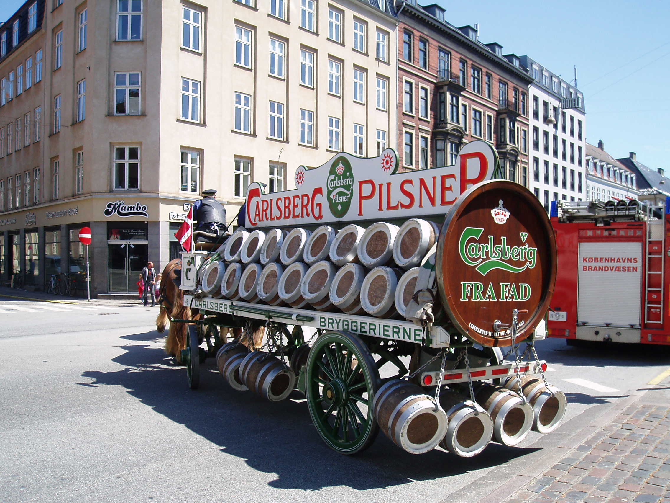 Old horse-drawn Carlsberg beer delivery wagon leaving the yard at Copenhagen Main Fire Station entering Vester Voldgade